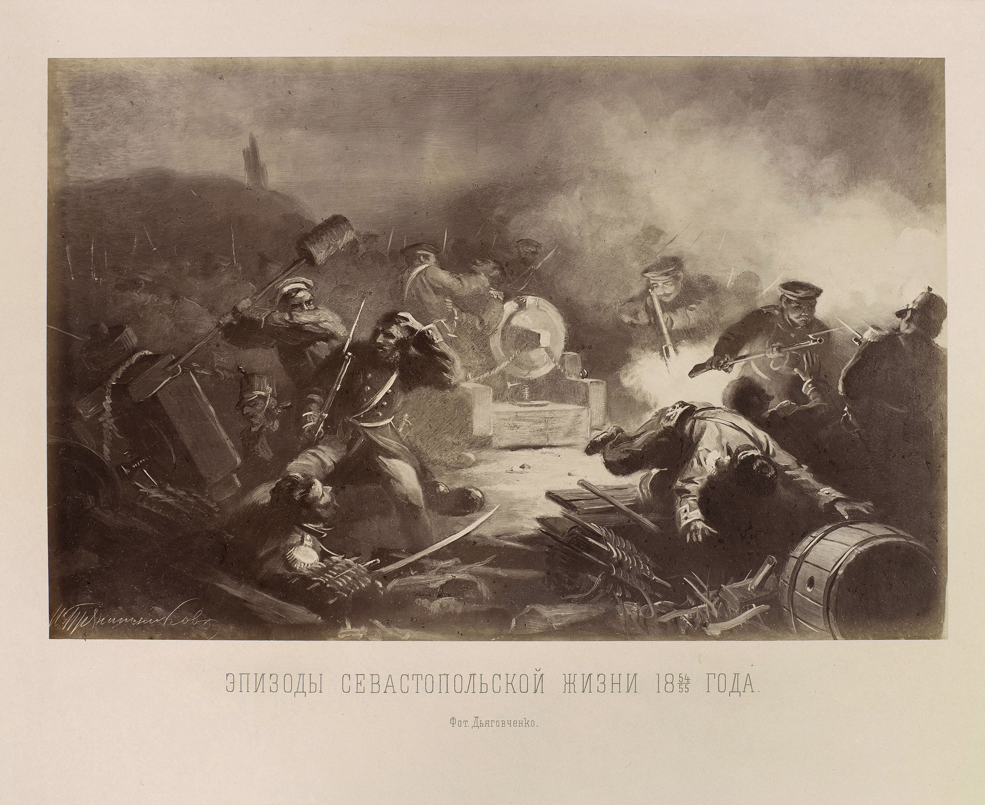 Fall of the Mamelon vert during the siege of Sebastopol (1854-1855) Part of an album of paintings showing scenes from the siege of Sevastopol 1854-55 and exposed at the 1872 Moscow Polytechnic Exhibition